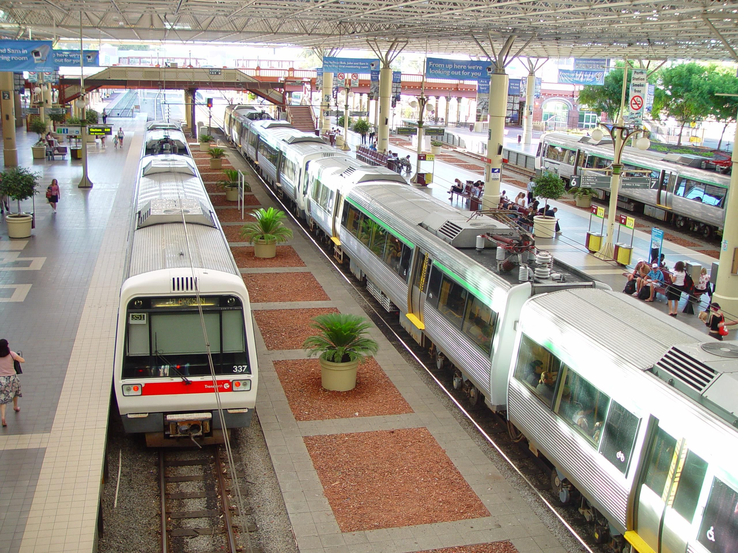 Perth railway station